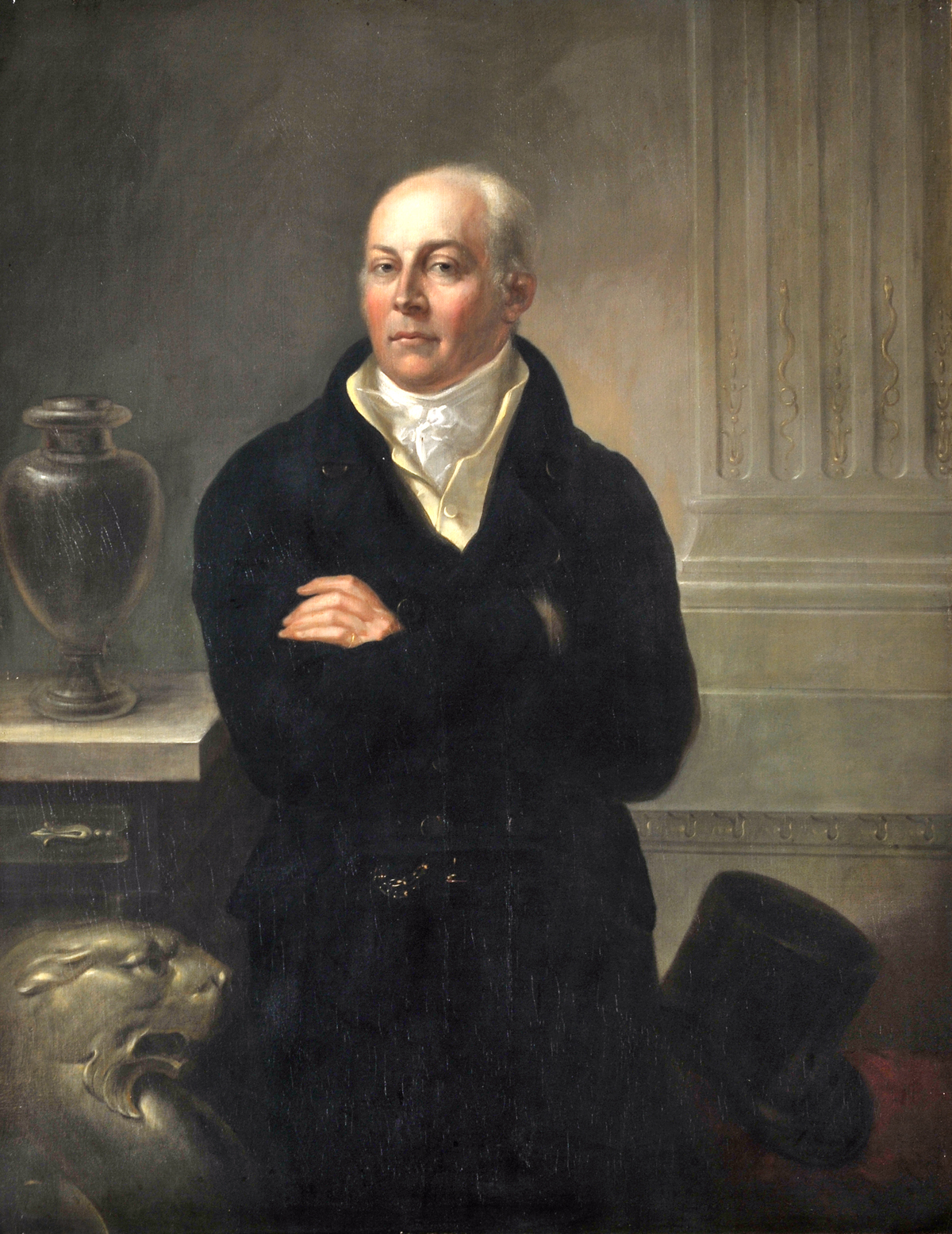 Portrait of Sir Mark Masterman-Sykes, 3rd Baronet (1771–1823), English politician.